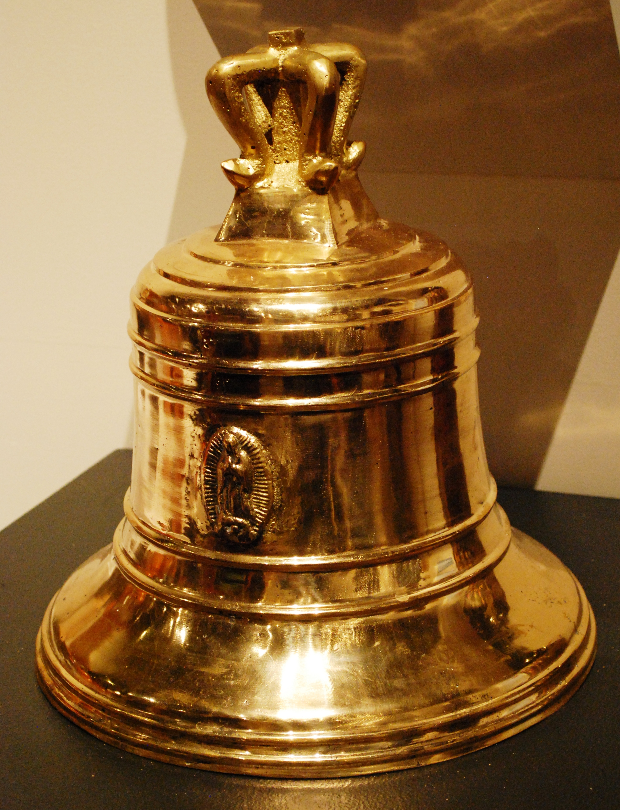 Bell casted by Jose Luis Greez Nieto of Tizapan, Zacualtipan, Hidalgo. Part of a temporary exhibit dedicated to the state at the Museo de Arte Popular, Mexico City